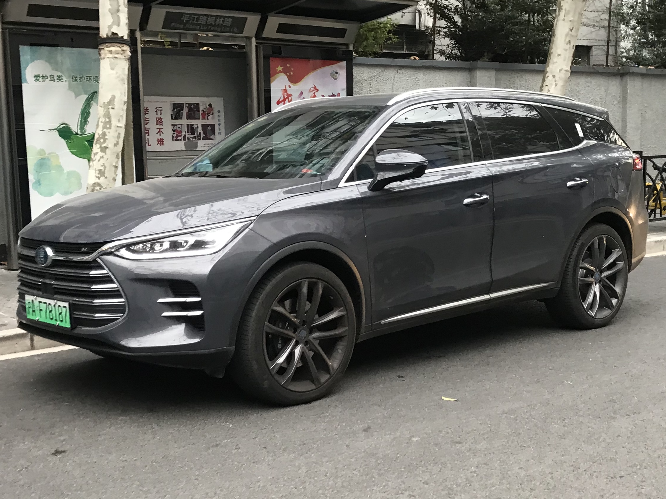 BYD Tang II front